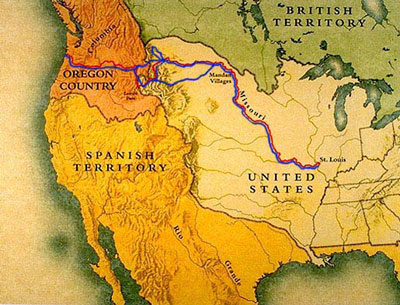 Lewis_and_Clark_Expo_Map.jpg